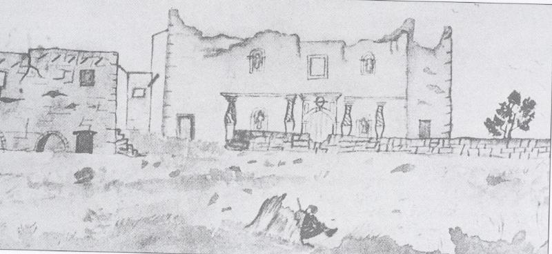 This is a drawing that Mary Ann Adams Maverick created in 1838. It depicts the Alamo Mission in San Antonio. Maverick died in 1898.